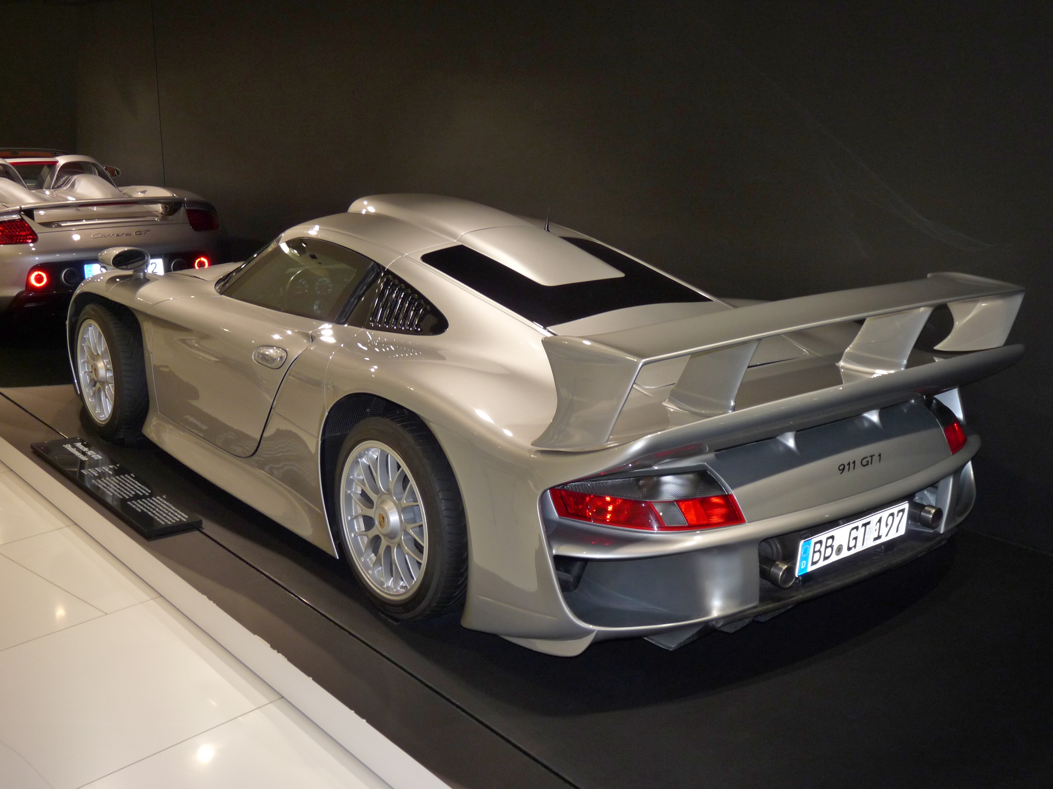 see filename for despcription - seen at Porsche Museum Native namePorsche-MuseumLocationStuttgartCoordinates48° 50′ 07″ N, 9° 09′ 06″ E Established1976 (old museum) 2009 (new museum)Web page control : Q328623 VIAF: 138511768 GND: 2087859-X SUDOC: 155641123 NKC: ko2015876799 institution QS:P195,Q328623